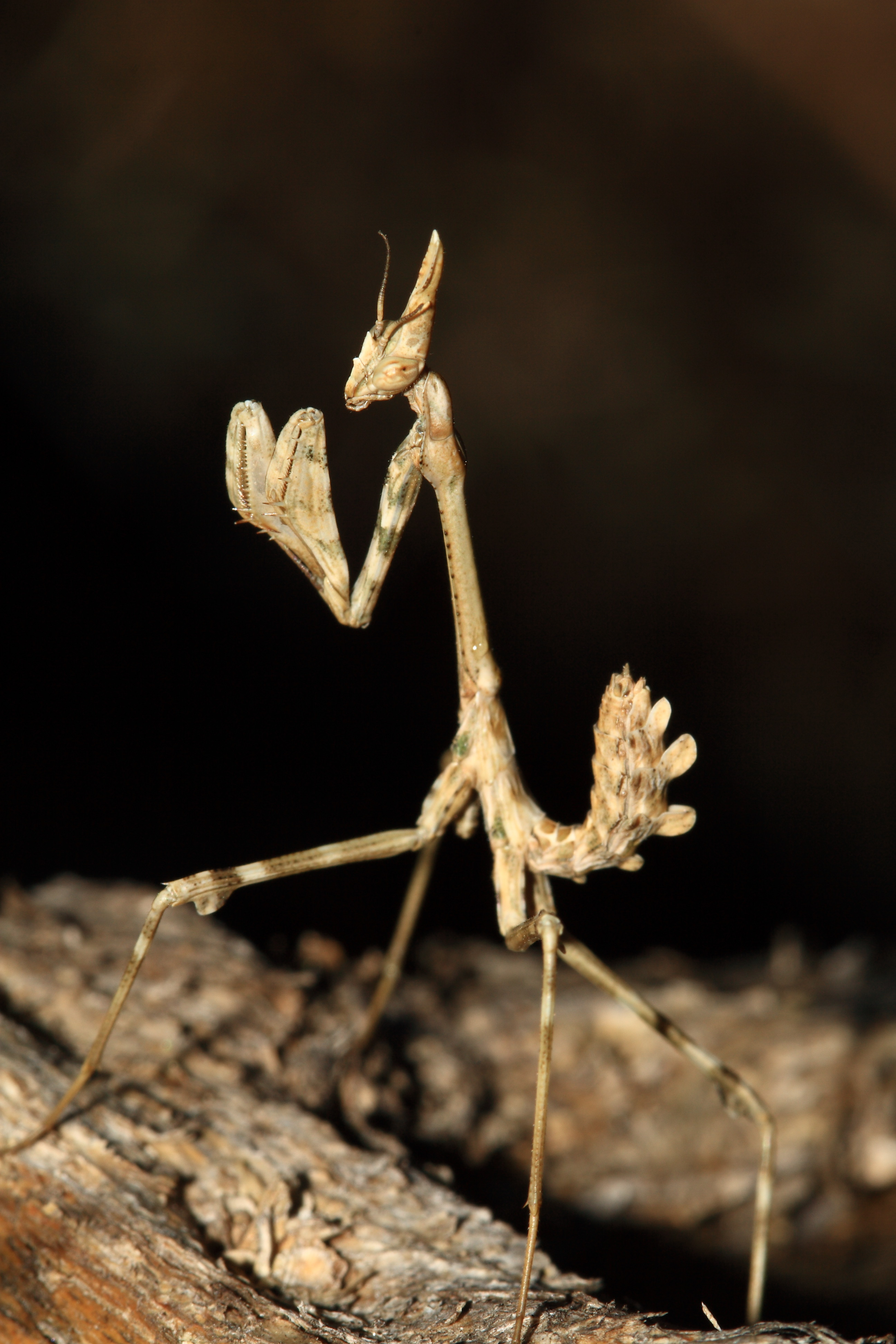 Empusa pennata, a species of praying mantid, taken at Lousame (Galicia, Spain).